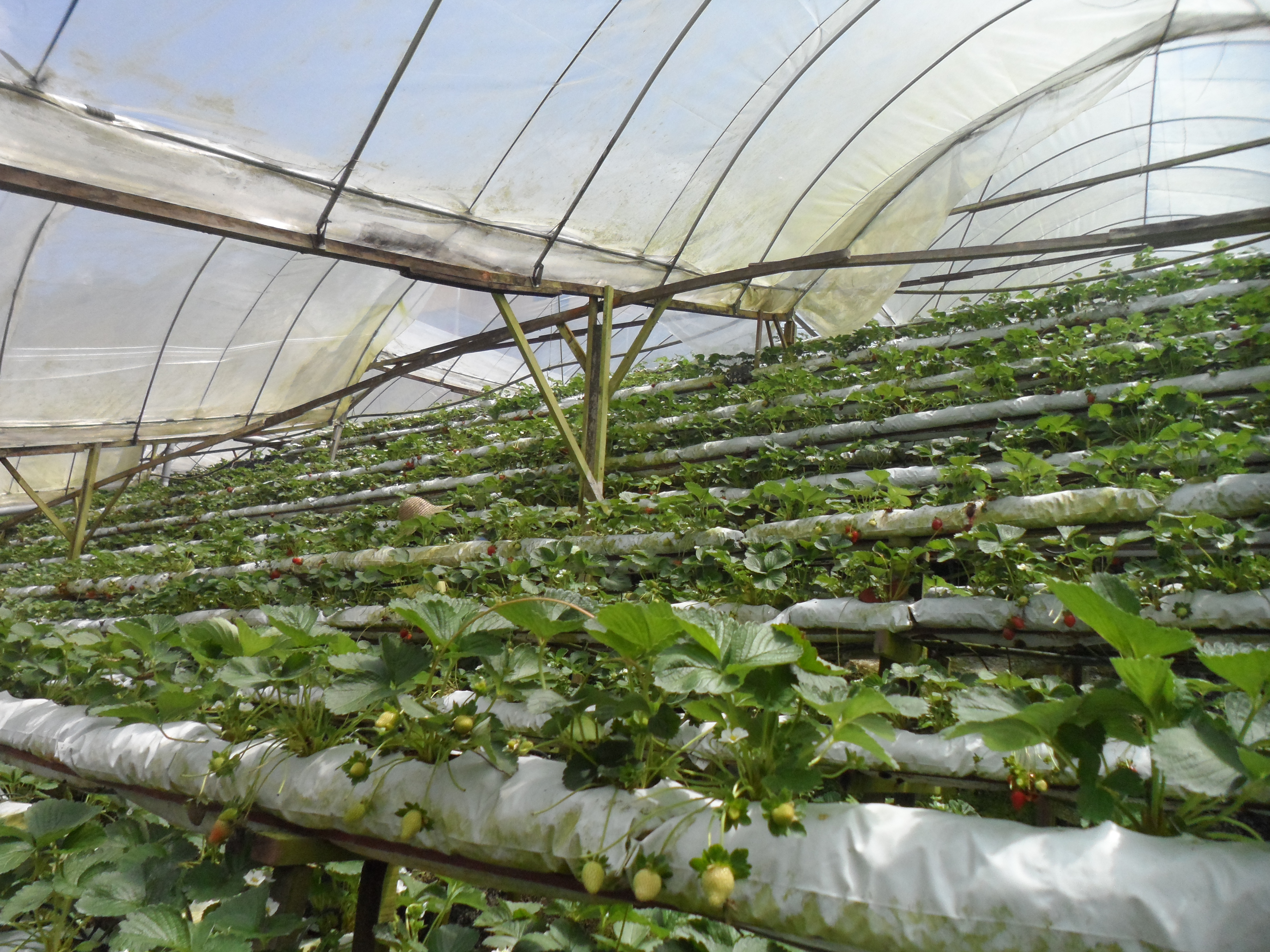 A strawberry plantation at Brinchang, Cameron Highlands. Strawberries in Cameron Highlands are cultivated by using the fertigation method.